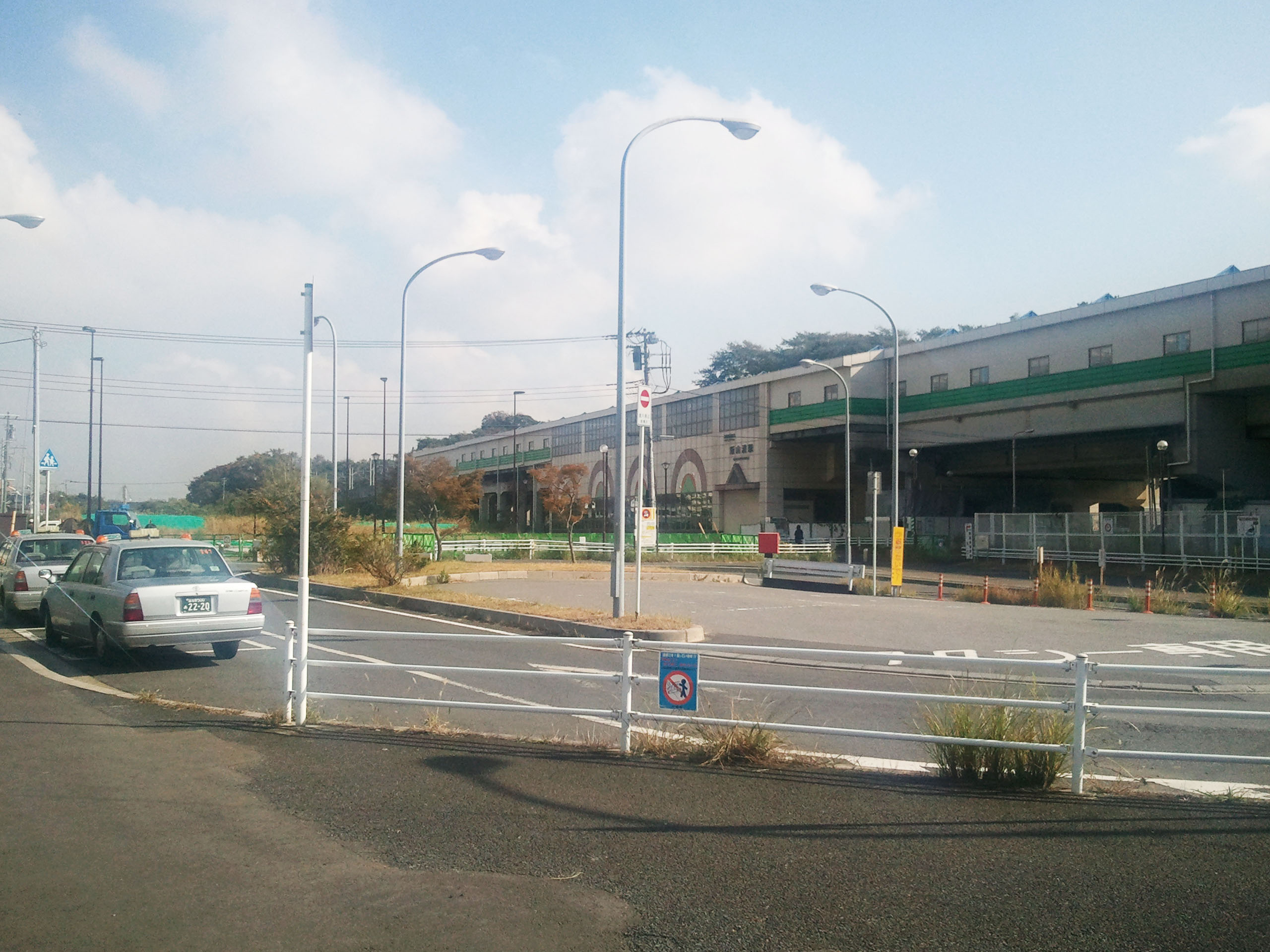 Hasama station north rotary, 飯山満駅北口ロータリー